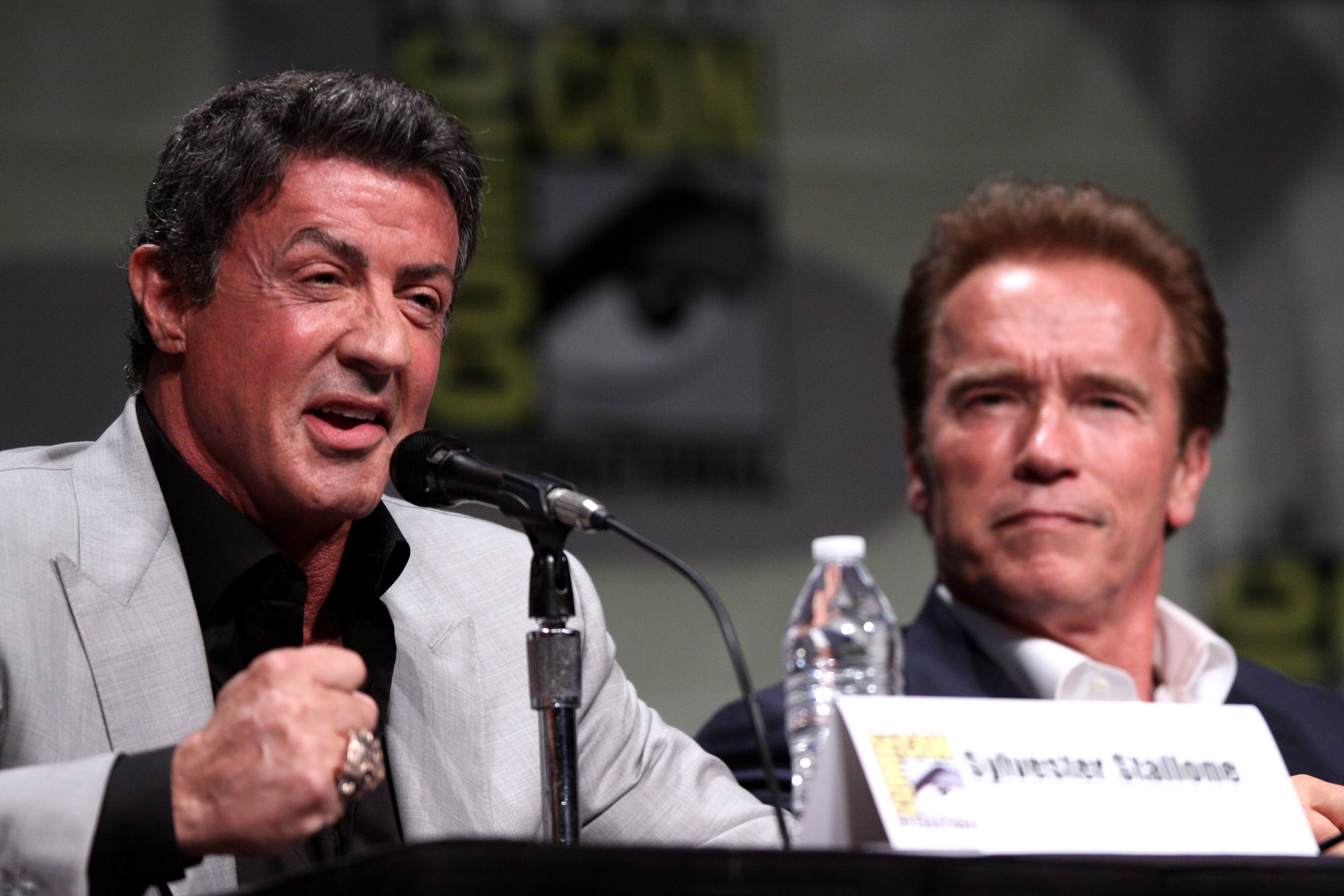 Sylvester Stallone & Arnold Schwarzenegger speaking at the 2012 San Diego Comic-Con International in San Diego, California.